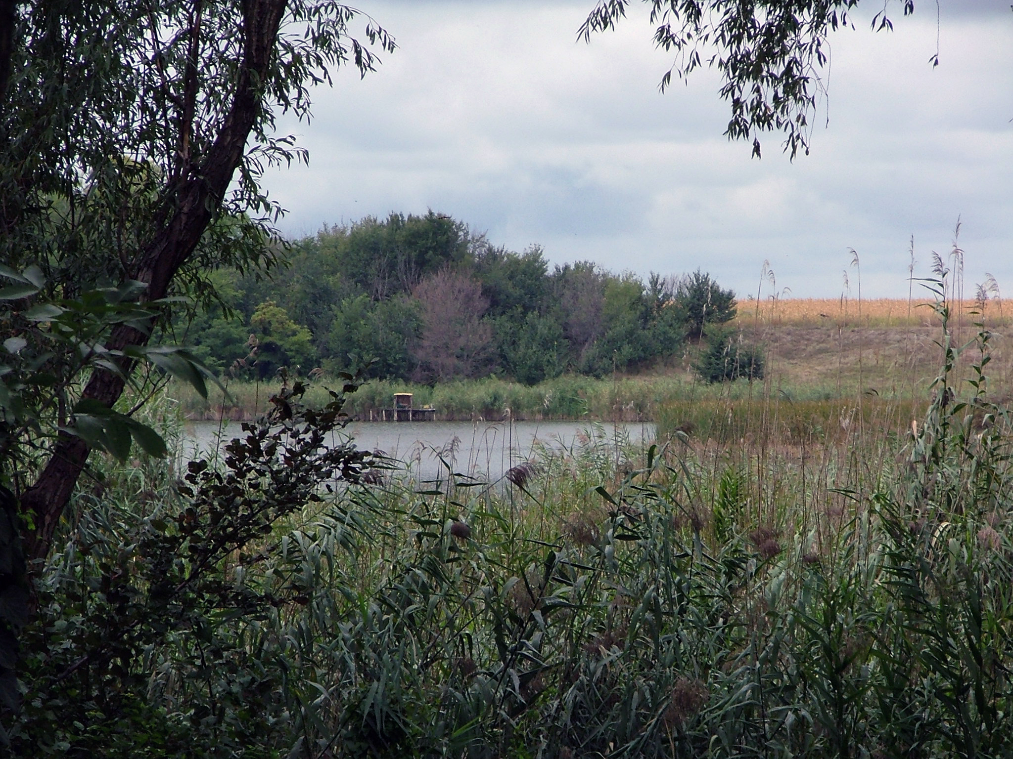 Поглед на парк природе у Зобнатици